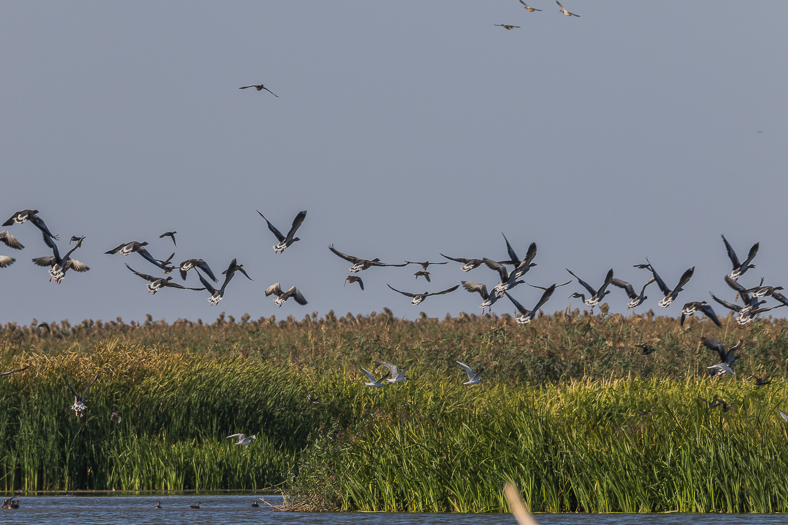 This is an image of the Biosphere Reserve or a Geopark: Astrakhan Nature Reserve